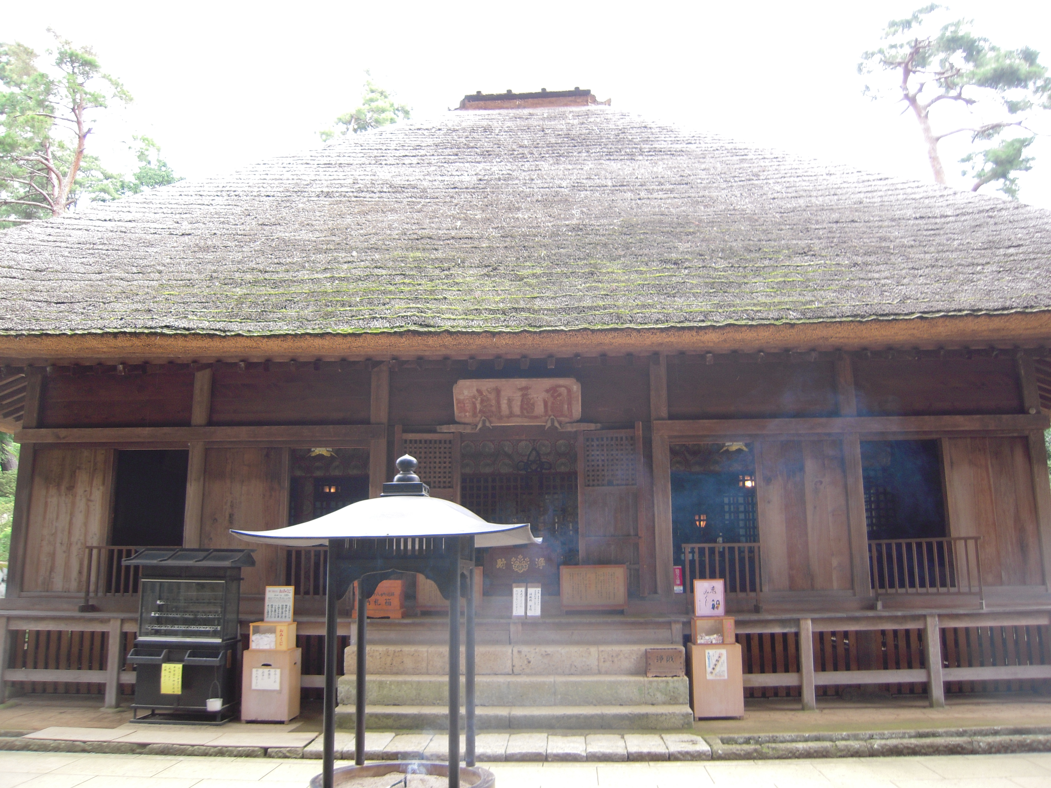 Shiofune Kan-non